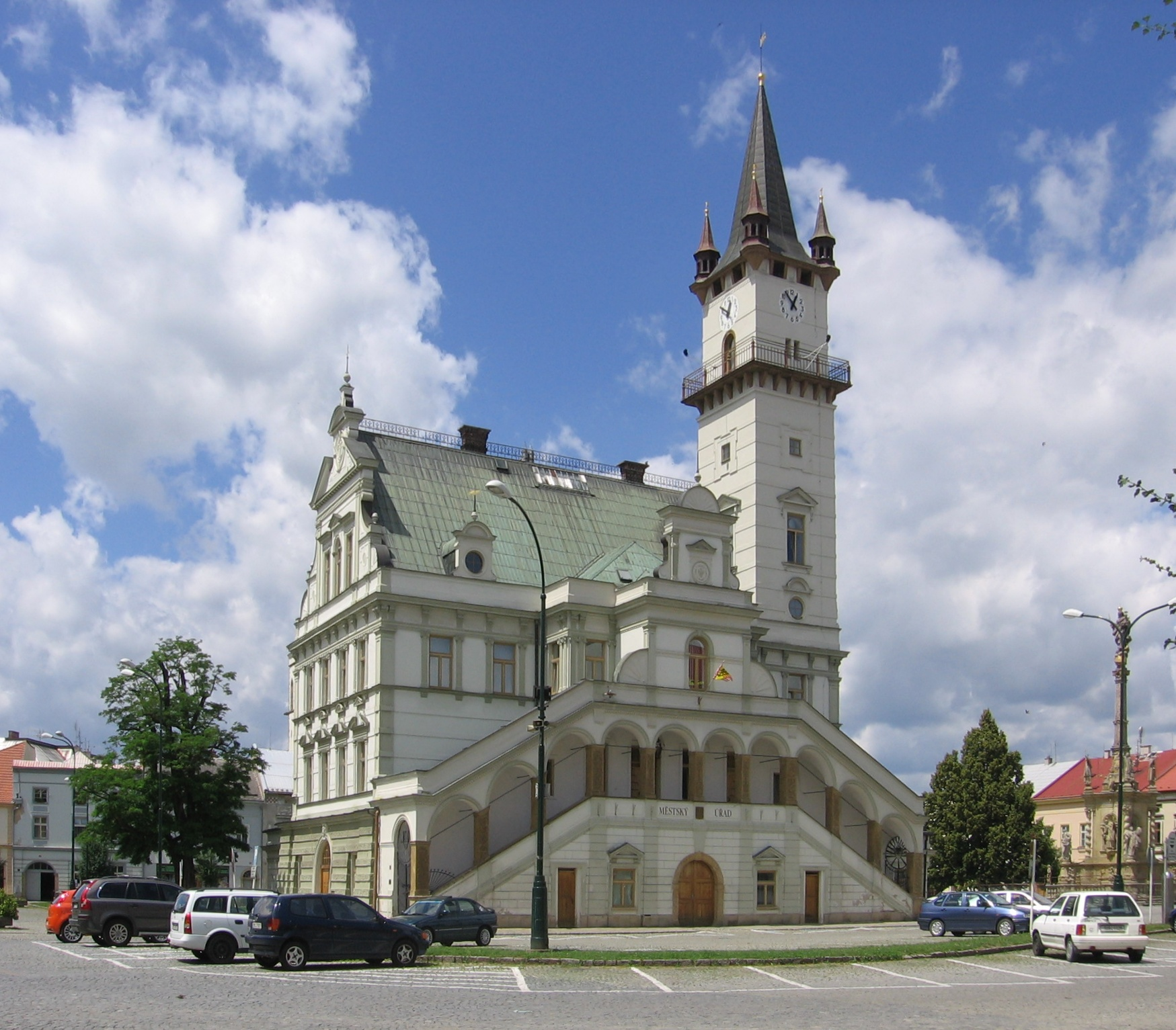 Townhall in Uničov (Czech Republic)